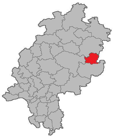 Map of the district court Hünfeld in Hesse